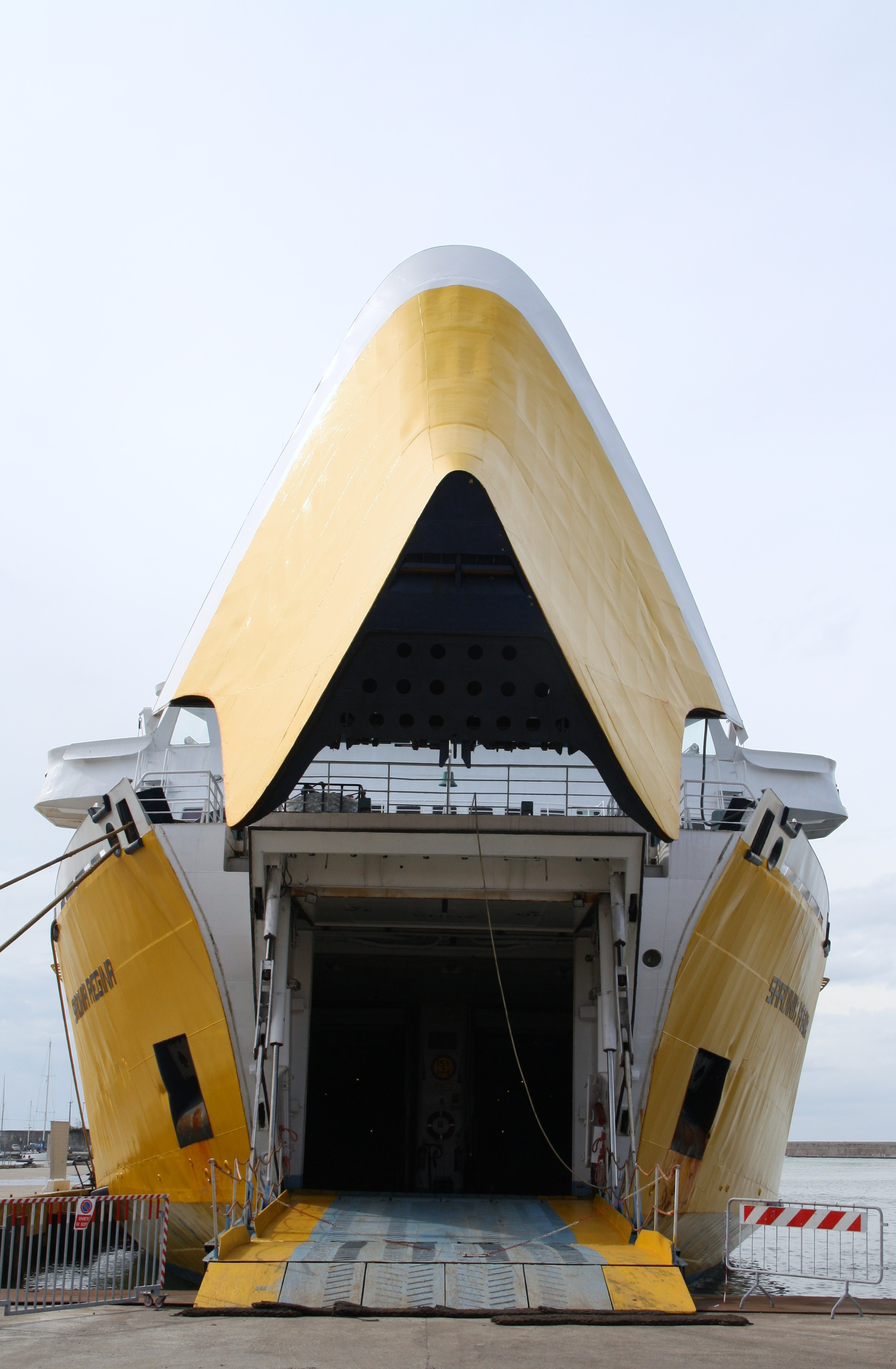 Shipowner: Forship S.p.A., Vado Ligure Operator: Corsica Ferries - Sardinia Ferries IMO: 7205910 MMSI: 247079000 Call sign: IBMS Type: Ropax Builder: Brodogradiliste Jozo Lozovina Mosor, Traù, Jugoslavia Yard number: 161 Keel laid: February 12, 1972 Launch date: October 29, 1972 Port of registry: Genoa Gross tonnage: 13,004 t Net tonnage: 5,916 t DWT: 2,649 t Length overall: 146.55 m Breadth: 20.86 m Draught: 5.295 m Main engine: 6 x Nohab/Polar SF116VS-E diesel engines Engine power: kW Speed: 19 knots Passengers: 1790 Cars: 480